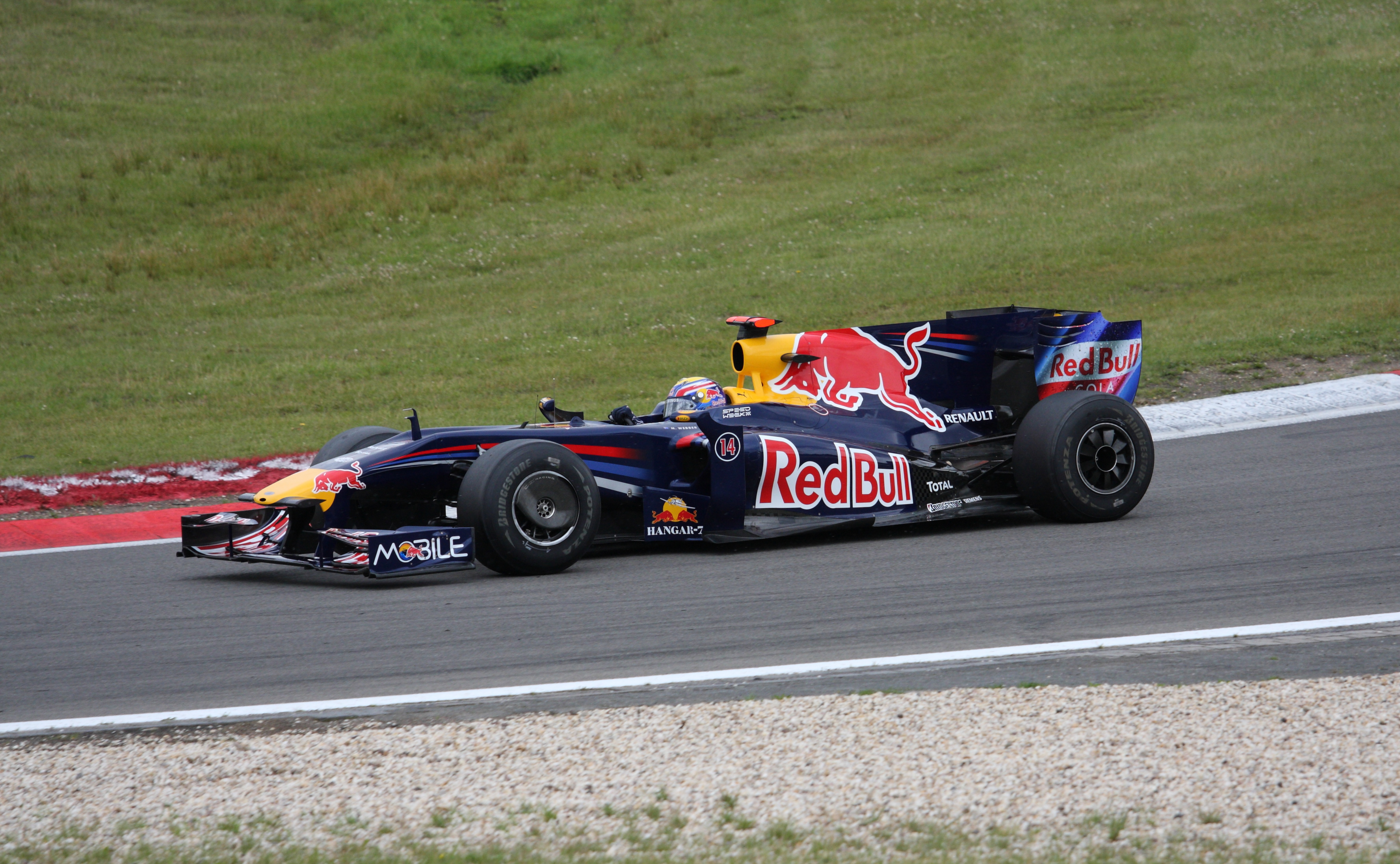 Mark Webber driving for Red Bull Racing at the 2009 German Grand Prix.